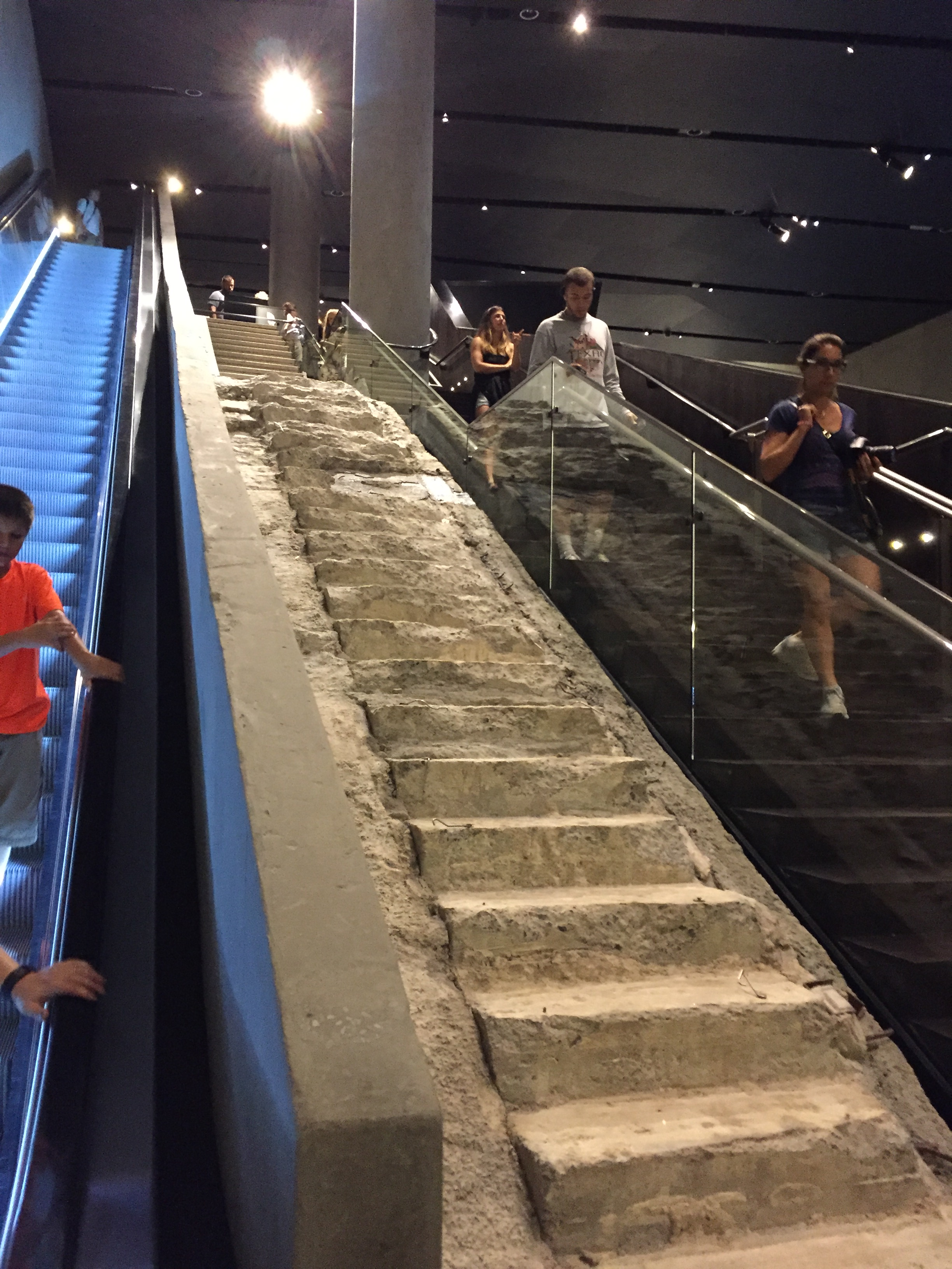 National September 11 Memorial & Museum